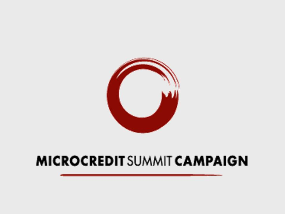 The logo of the Microcredit Summit Campaign